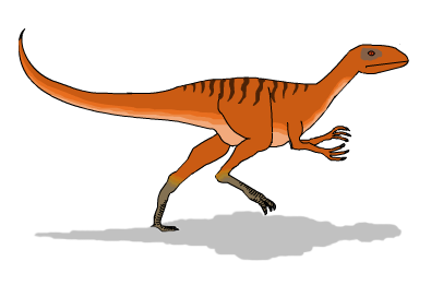 Sketch of the coelurosaurian theropod dinosaur Coelurus from North America of the Late Jurassic period